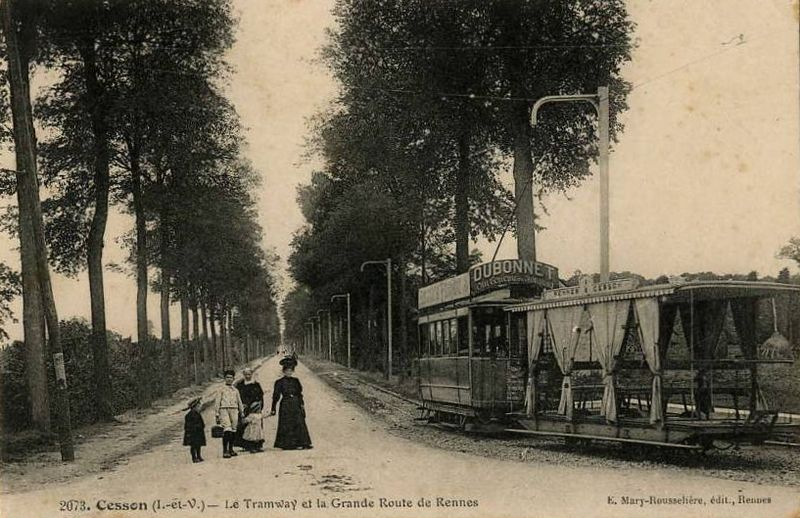 Tramway Electrique de Rennes